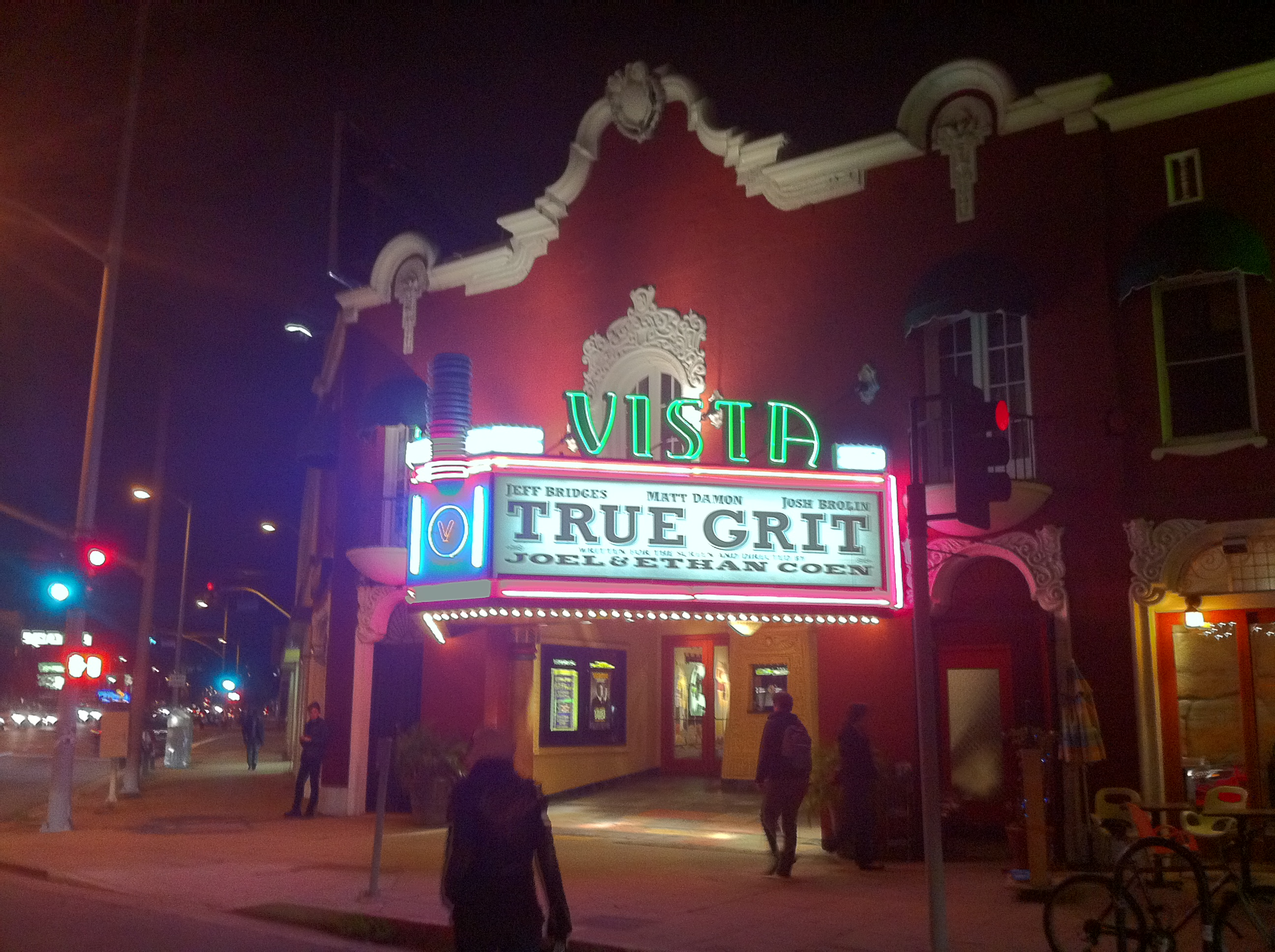 The Vista Theater at Los Angeles, CA